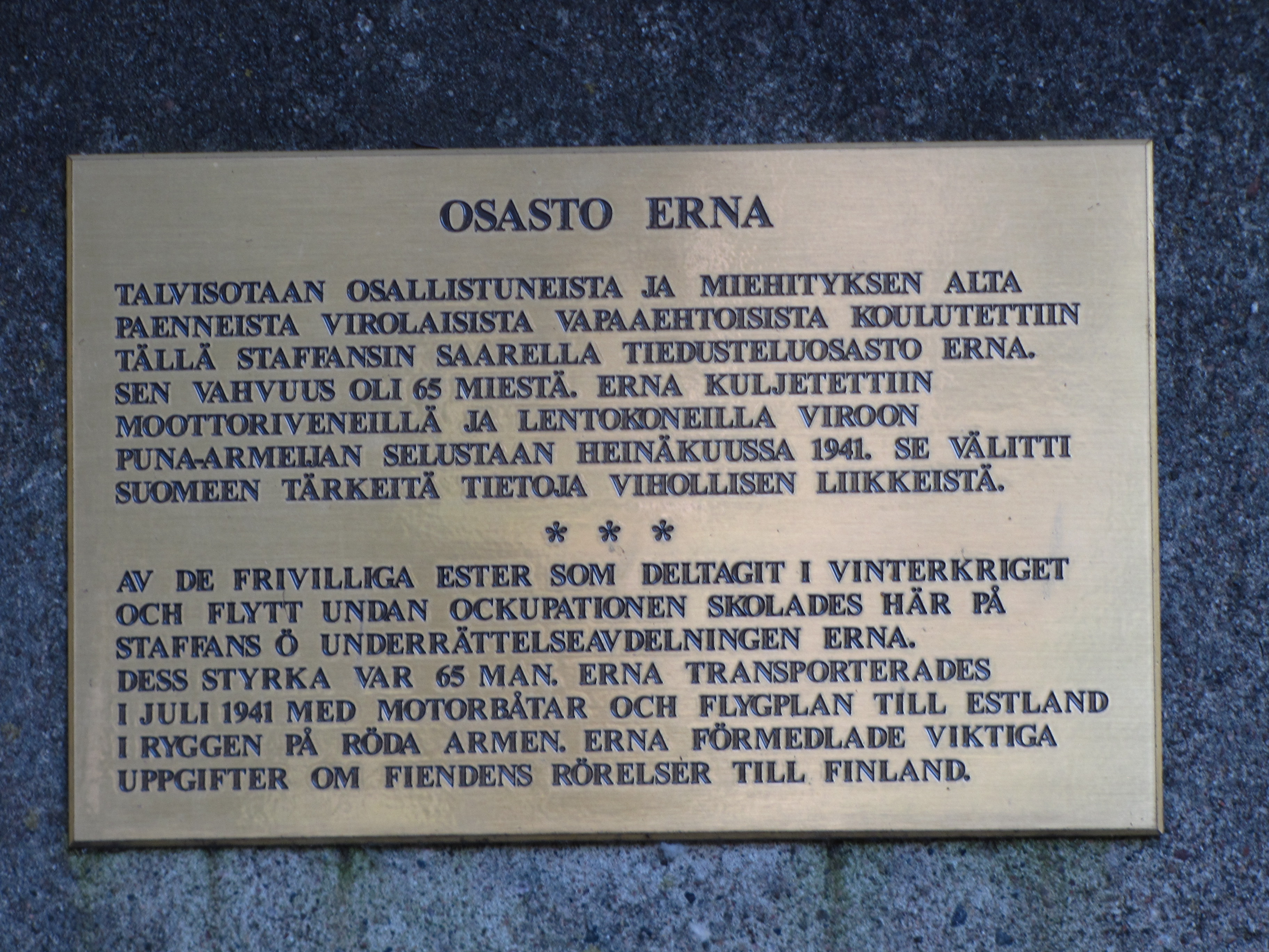 Memorial plaque of Erna long-range reconnaissance group in Staffaninsaari, Espoo, Finland. Translated text of the plaque (original in Finnish and Swedish): Estonians from Winter War volunteers and those who escaped from Estonia to flee the Soviet occupation were formed into reconnaisance unit Erna and trained here on Staffans island. The unit was 65 men strong. Erna was transported into Soviet-occupied Estonia on motor boats and aircraft in July 1941. It provided important information about enemy movements to Finland.